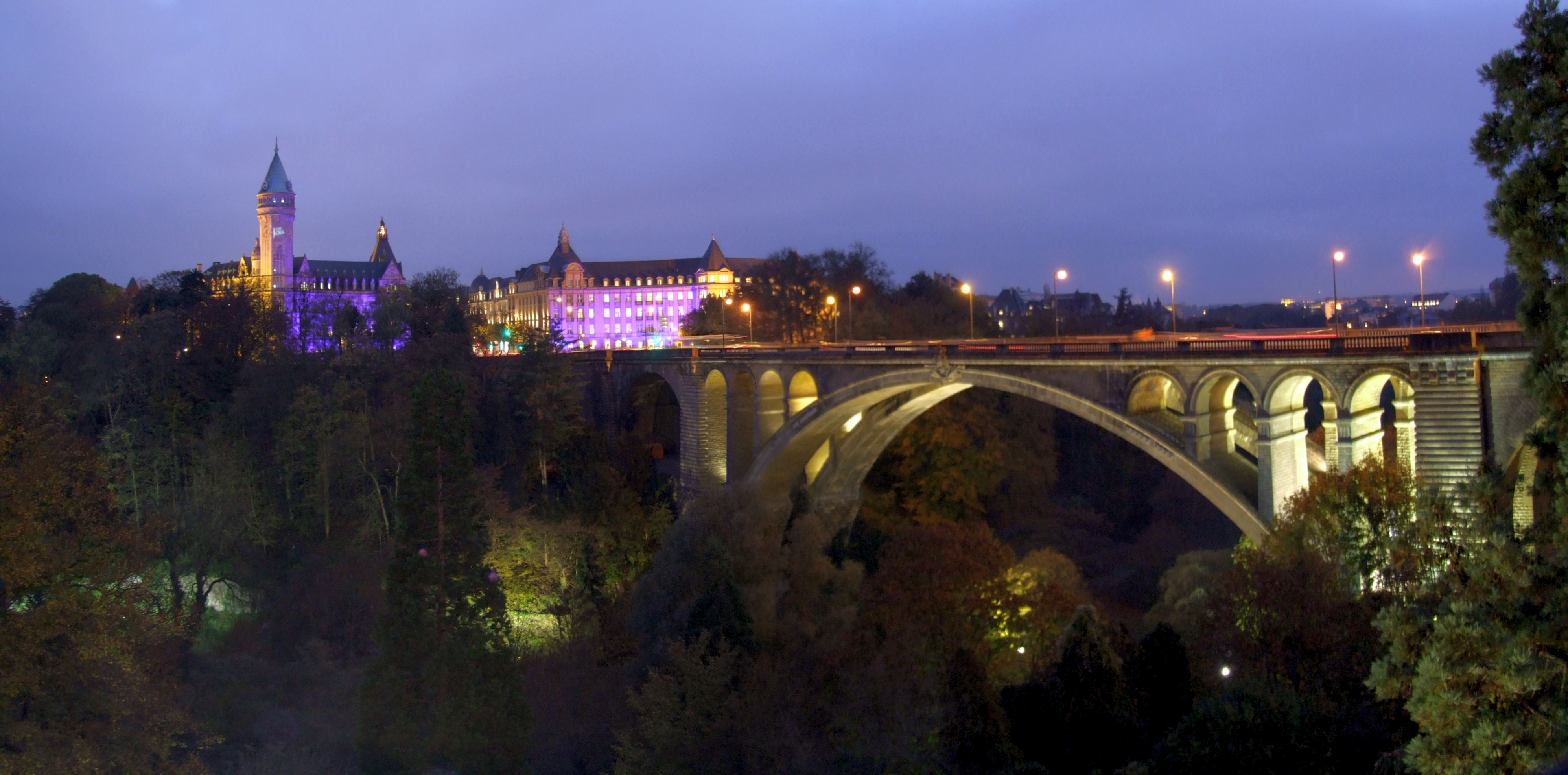 Luxembourg, LUXEMBOURG